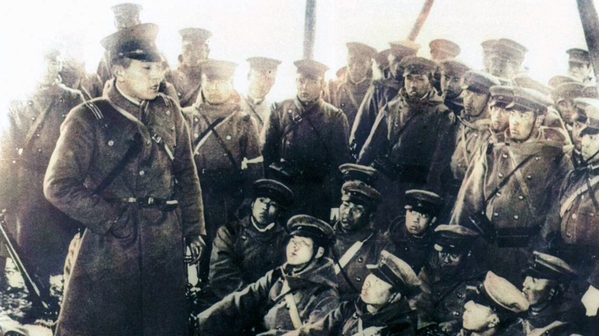 Rebel troops in February 26 Incident. 1st Lt. Yoshitada Niu and his company on February 26, 1936.